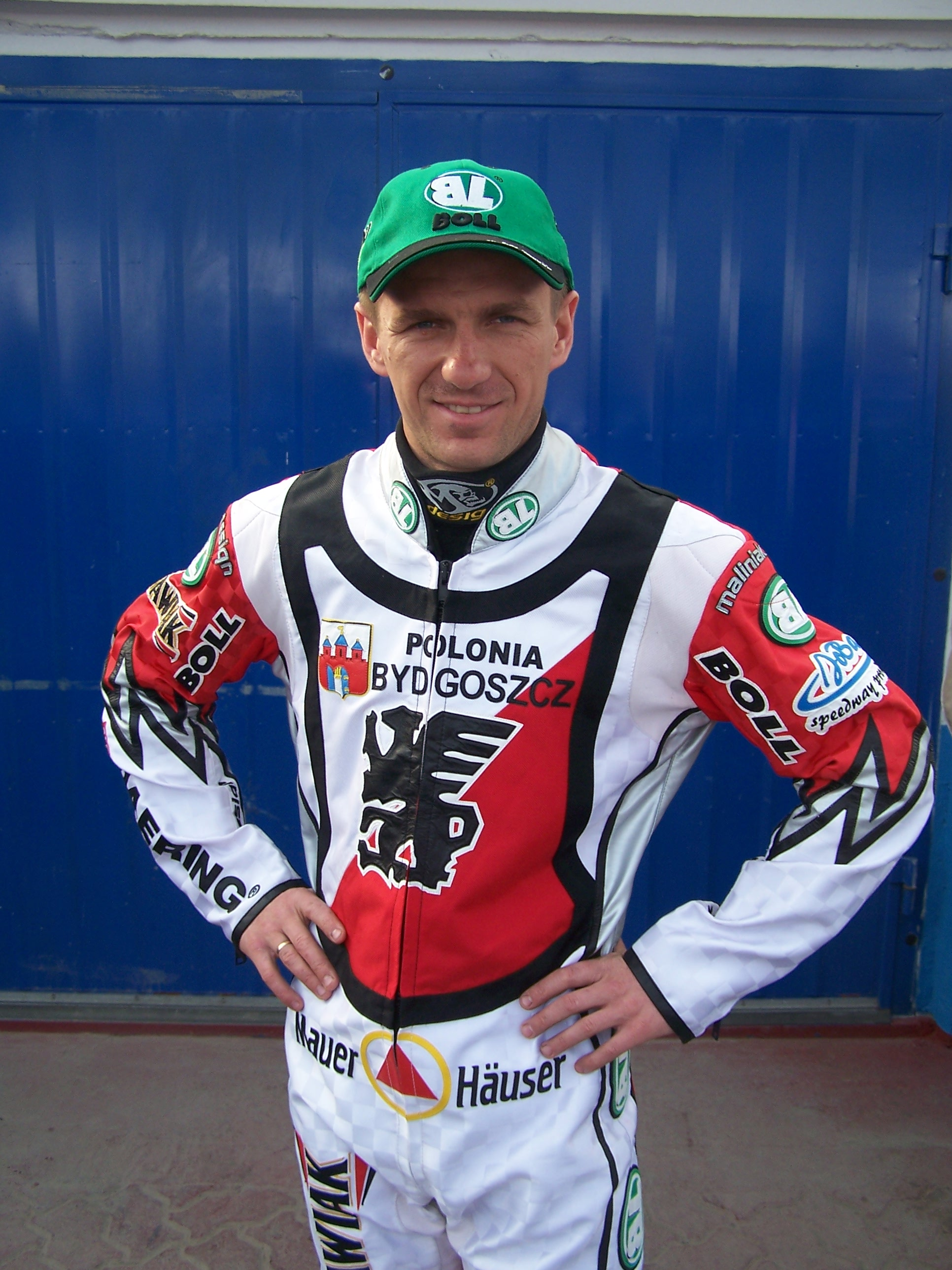 Rafał Okoniewski polish speedway rider